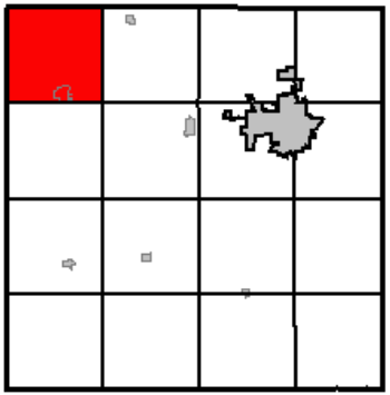 Map of Adams County, Nebraska highlighting Kenesaw Township; created with the GIMP. Made by User:Acntx.